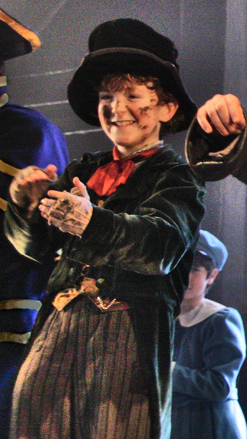 Final performance of the UK tour of Oliver! at the Bristol Hippodrome, 24 February 2013. Brenock O'Connor, Iain Fletcher, Neil Morrisey, Cat Simmons, Jacob Edwards.